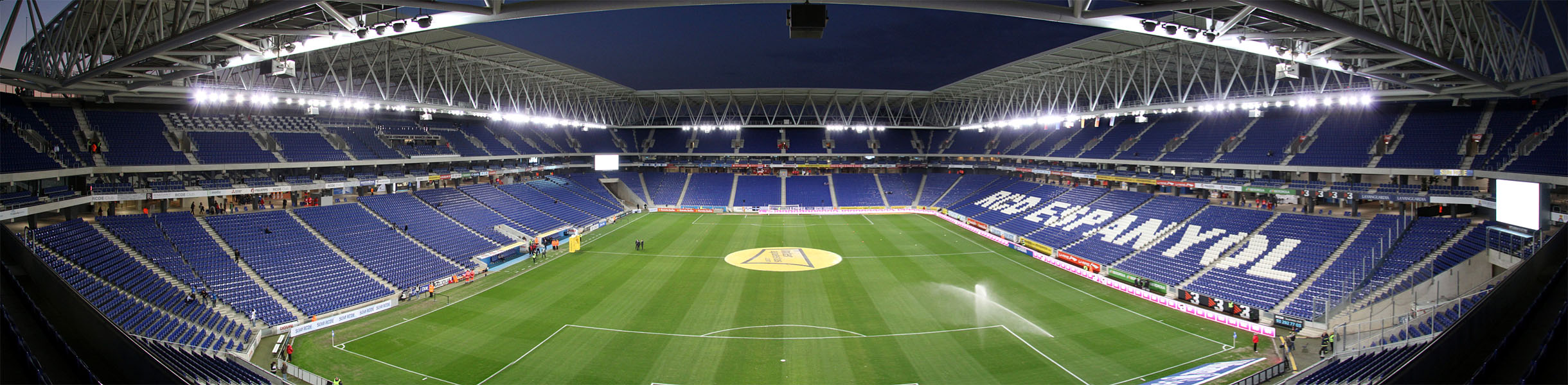 Inside the stadium